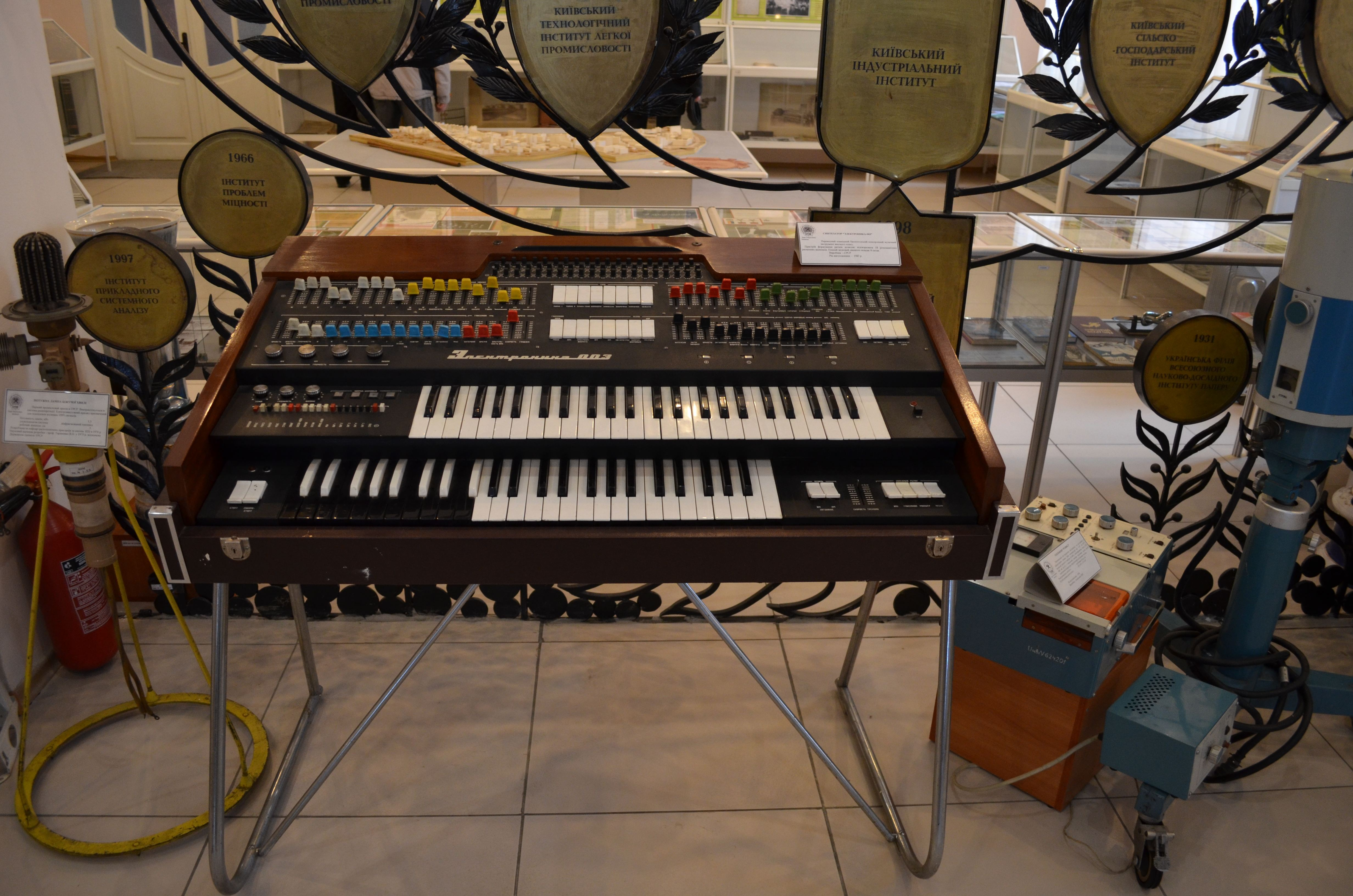 Elektronika 003